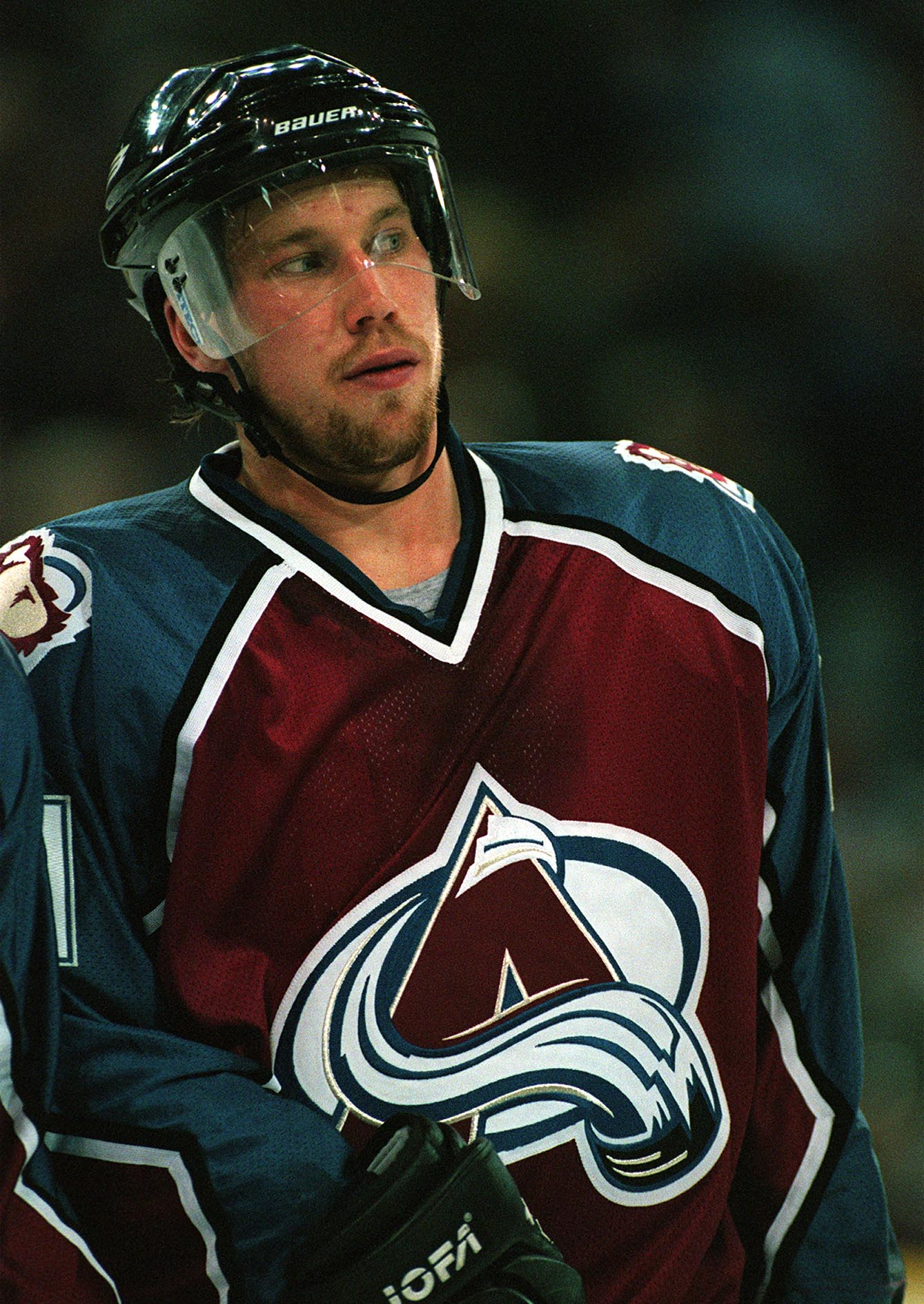 Peter Forsberg Colorado Avalanche October 1997